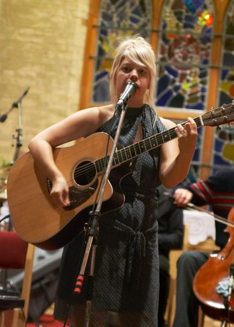 Basia Bulat performs at her CD release concert at the Music Gallery in Toronto, Ontario, Canada